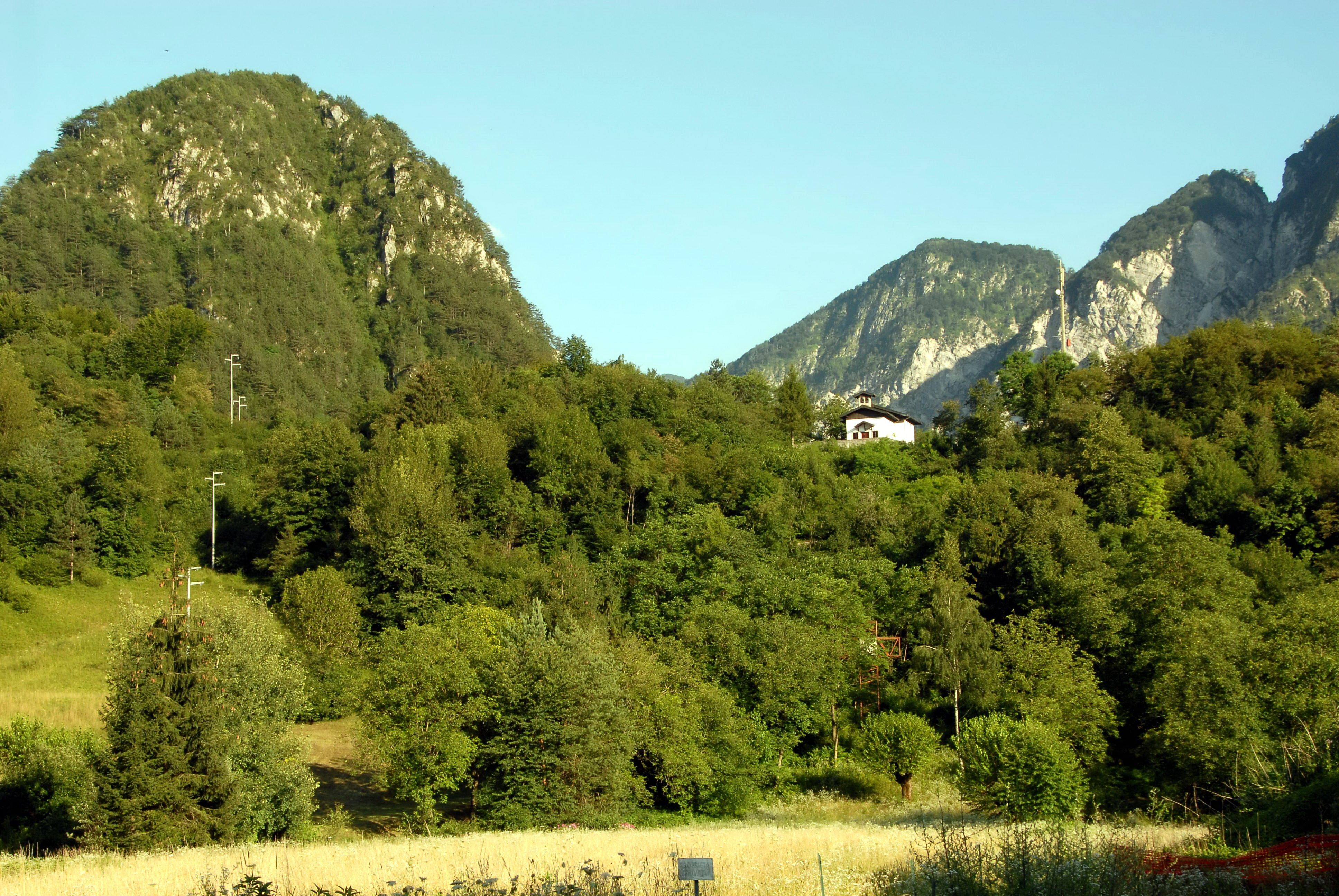 Forest and hills east of Resiutta in the Fella valley in the province of Udine, Friuli-Venezia Giulia, Italy